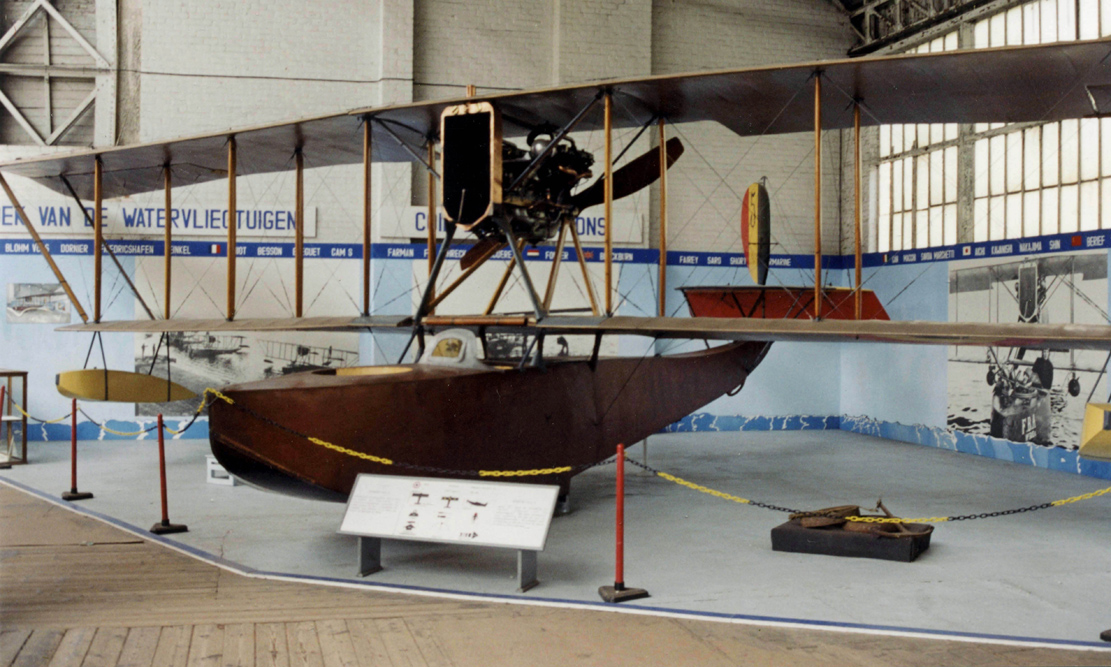 Schreck FBA.4 Type H flying boat 5.160 of the Belgian Air Force displayed in the Brussels Military Museum